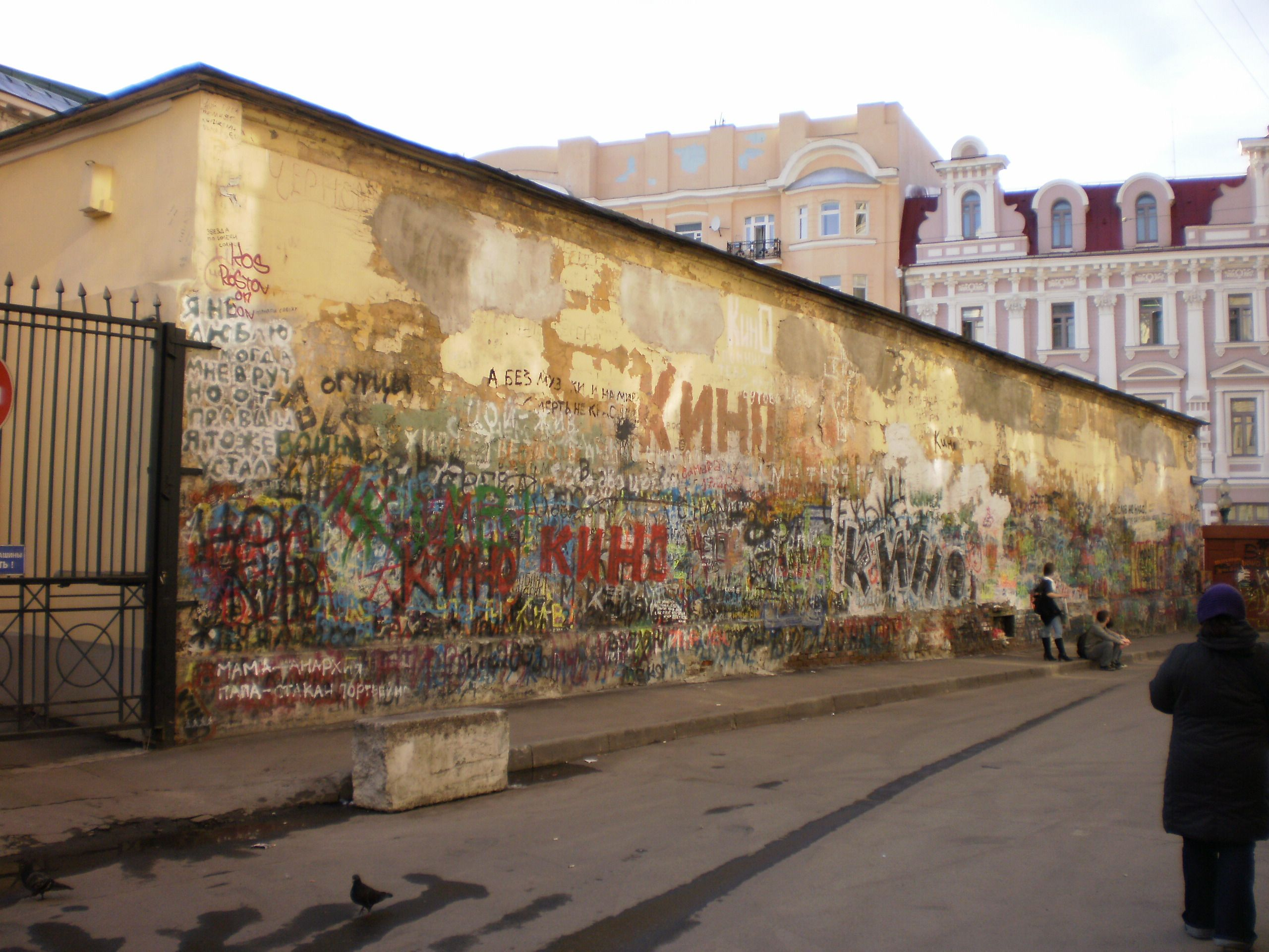 The Viktor Tsoi Wall on the Arbat str., Moscow